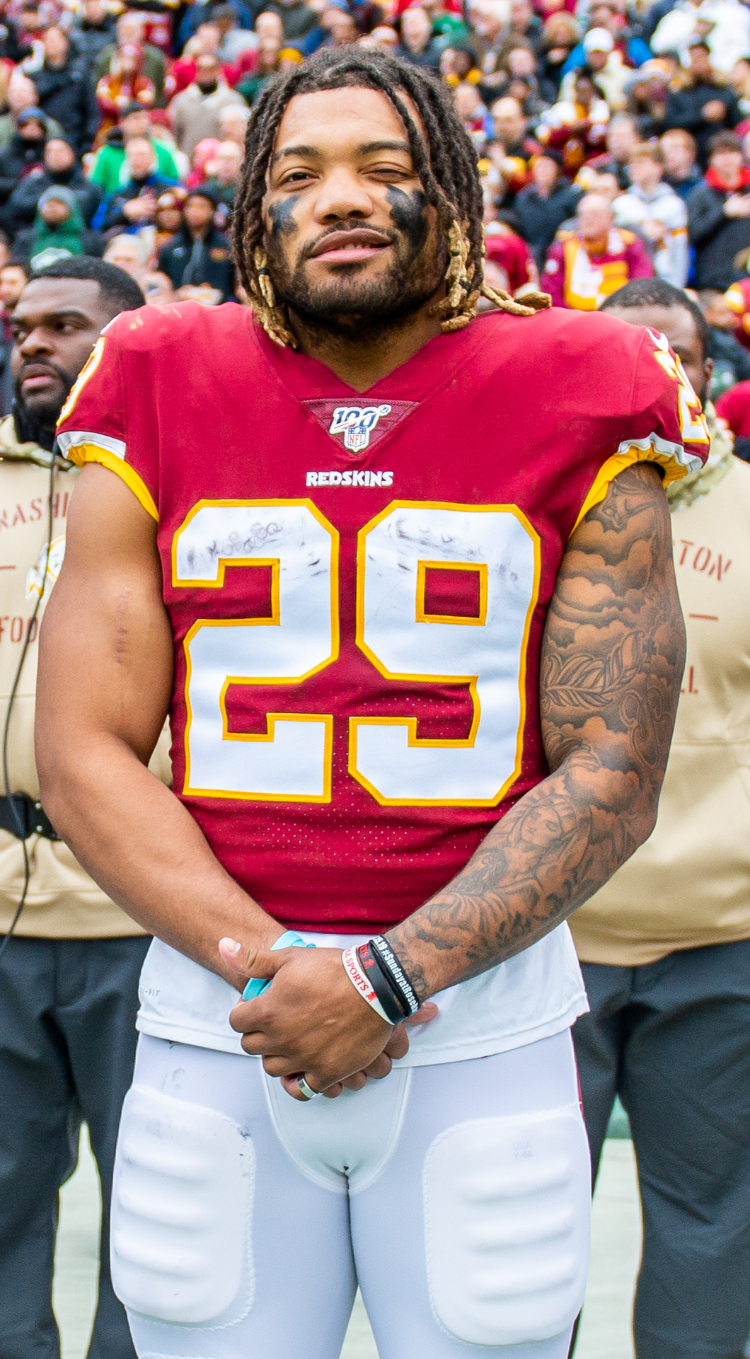 In 2019